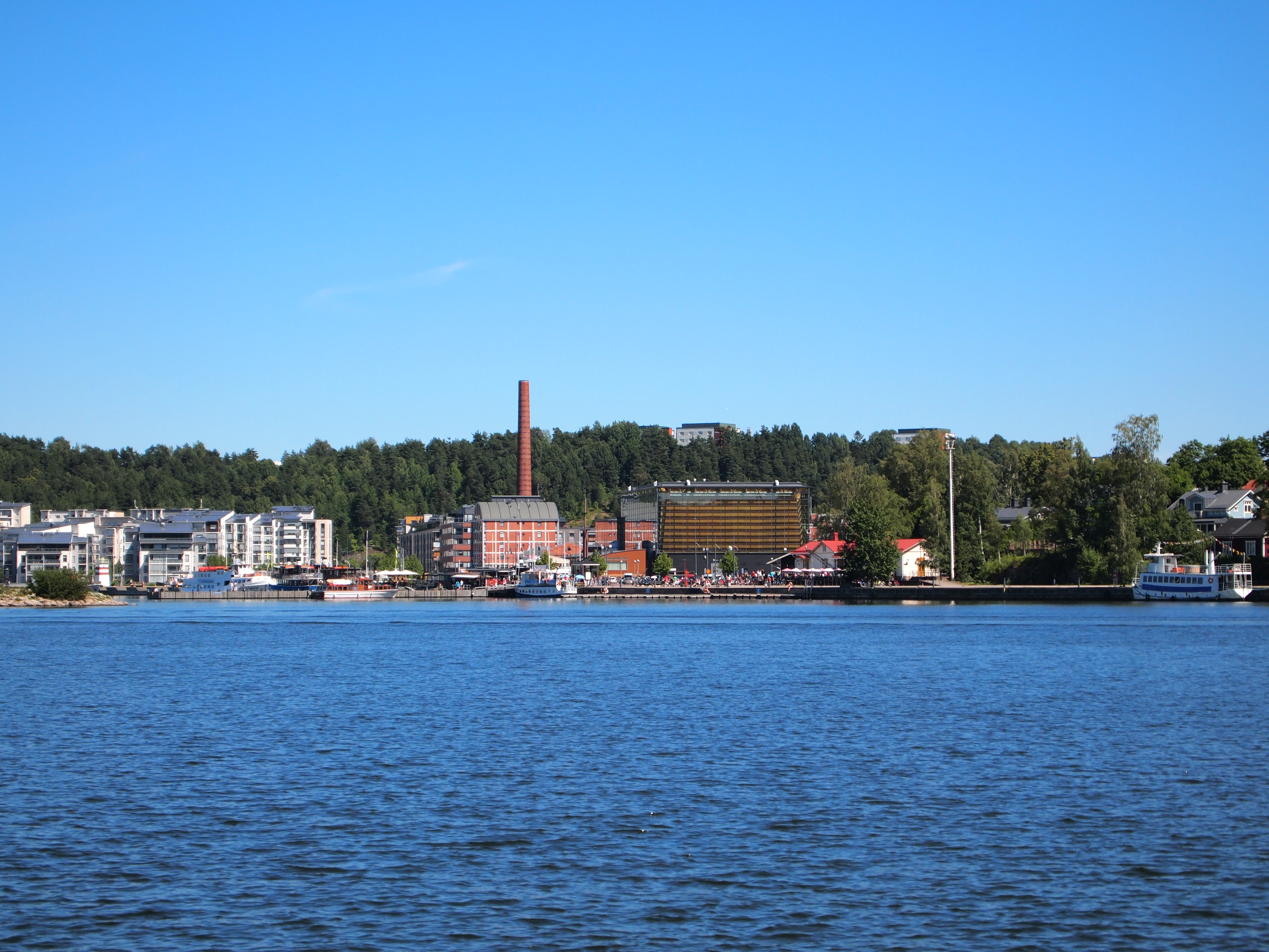 View of Lake Vesijärvi, Lahti. This photograph was taken with an Olympus E-PL1